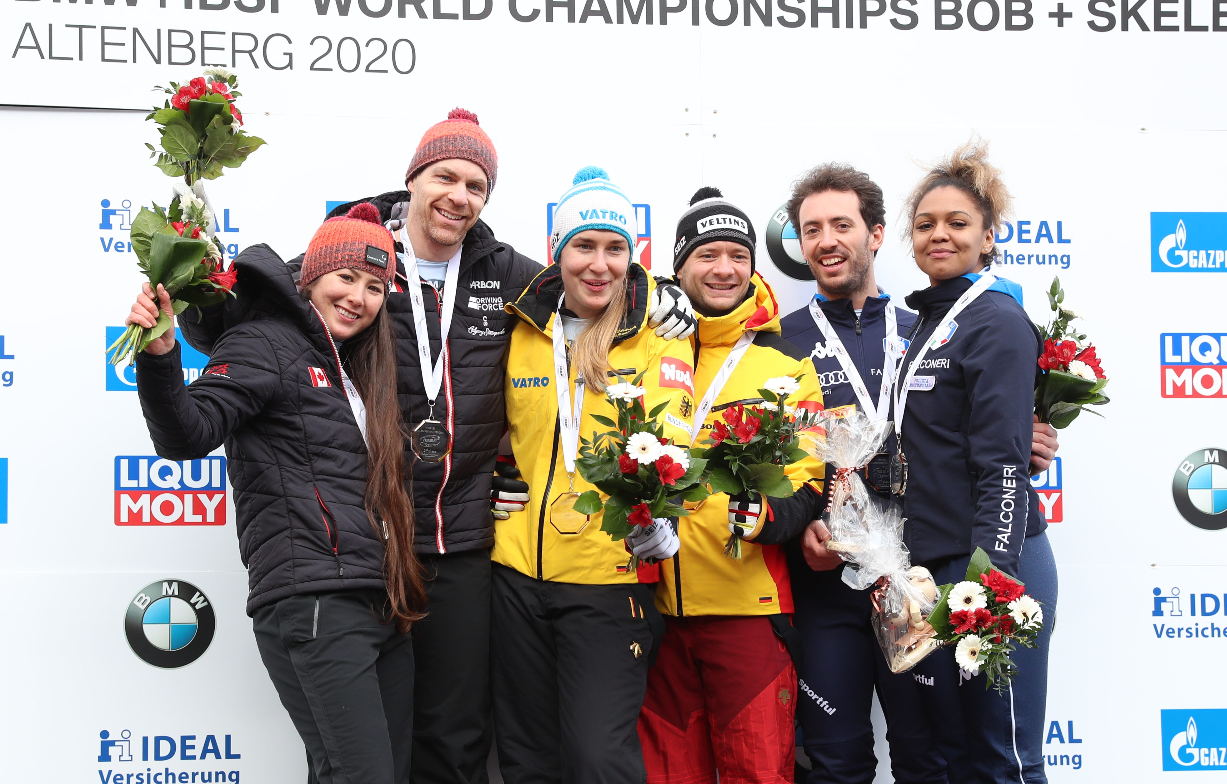 Medal Ceremony of the Skeleton Mixed Team competition at the Bobsleigh and Skeleton World Championships 2020 in Altenberg